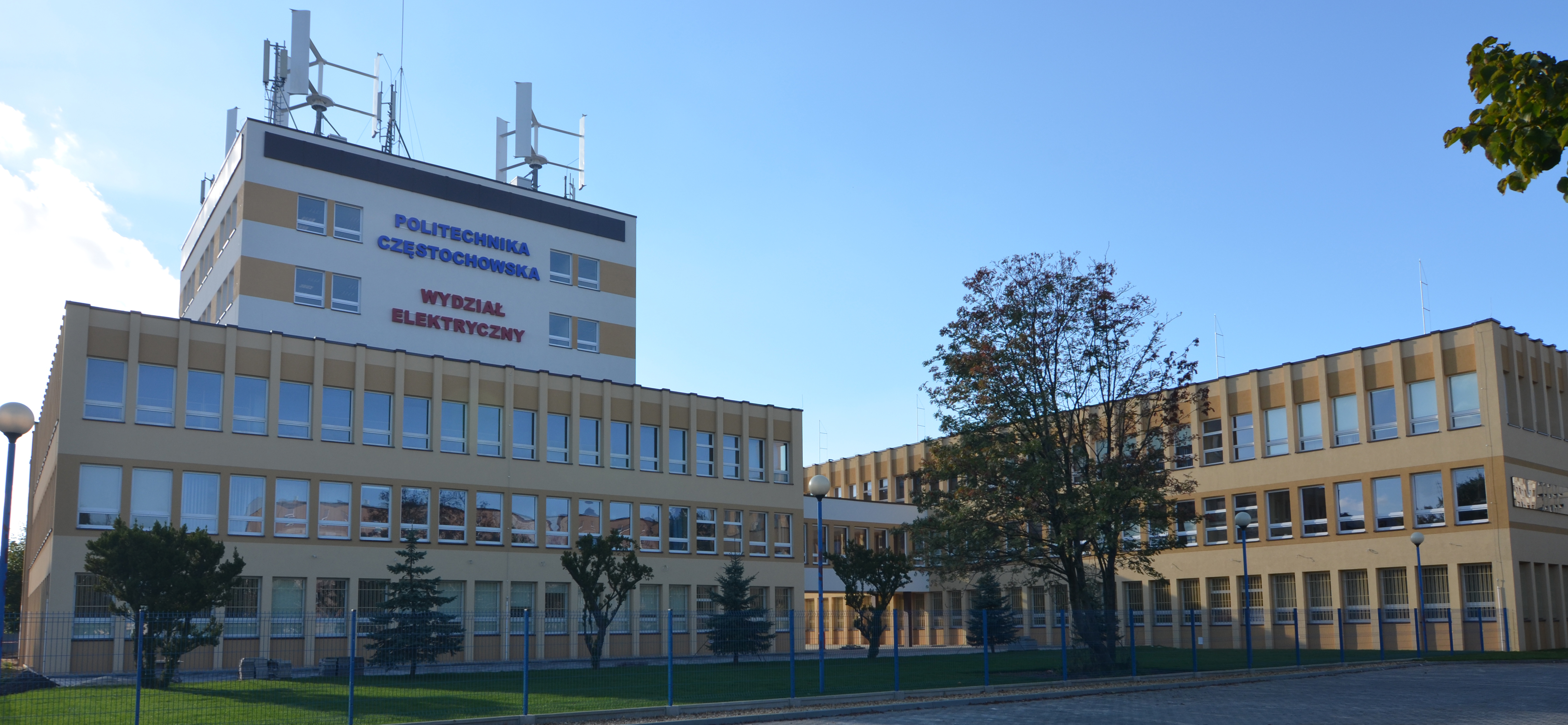 Poland Czestochowa University of Technology Faculty of Electrical Engineering